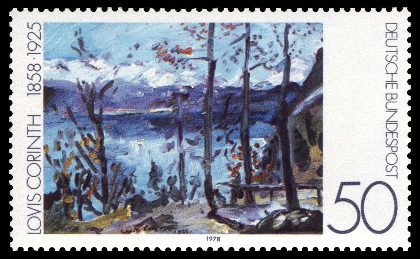 German impressionism Graphic designer: Schall Ausgabepreis: 50 Pfennig First Day of Issue / Erstausgabetag: 16. November 1978 Michel-Katalog-Nr: 986